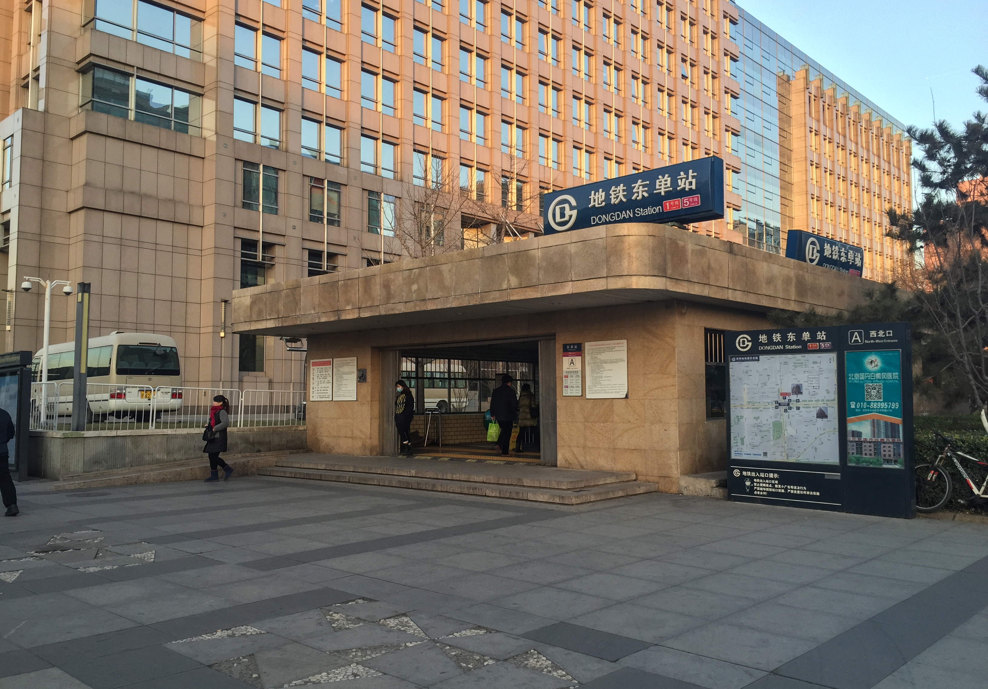 Typical scheme of a Fuba Line exit.